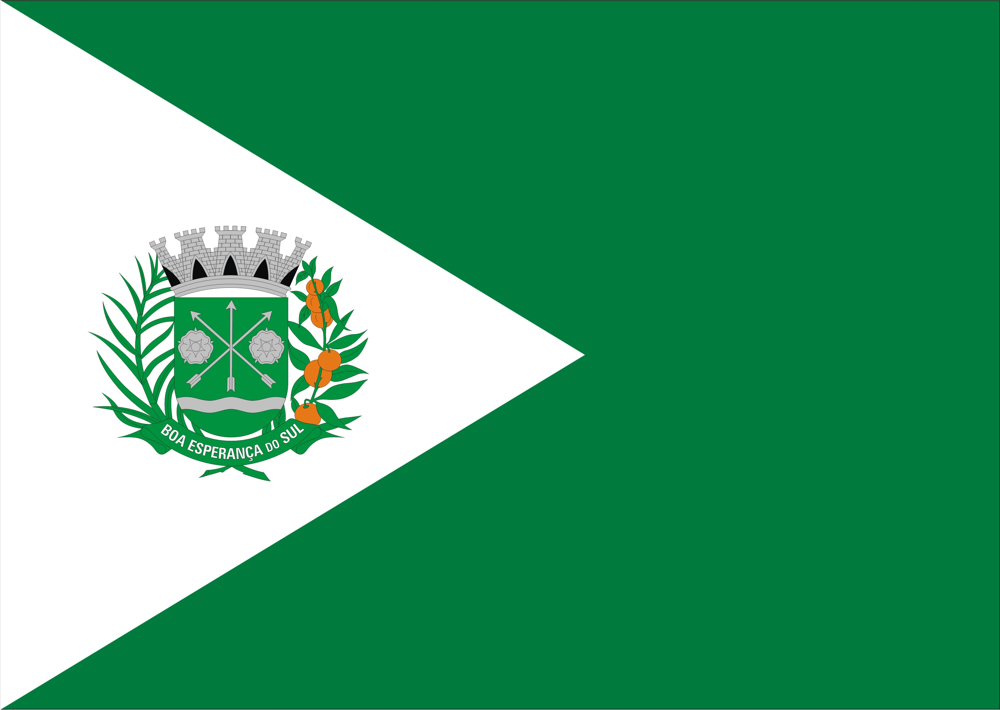 Flag of Boa Esperança do Sul - SP - Brasil.